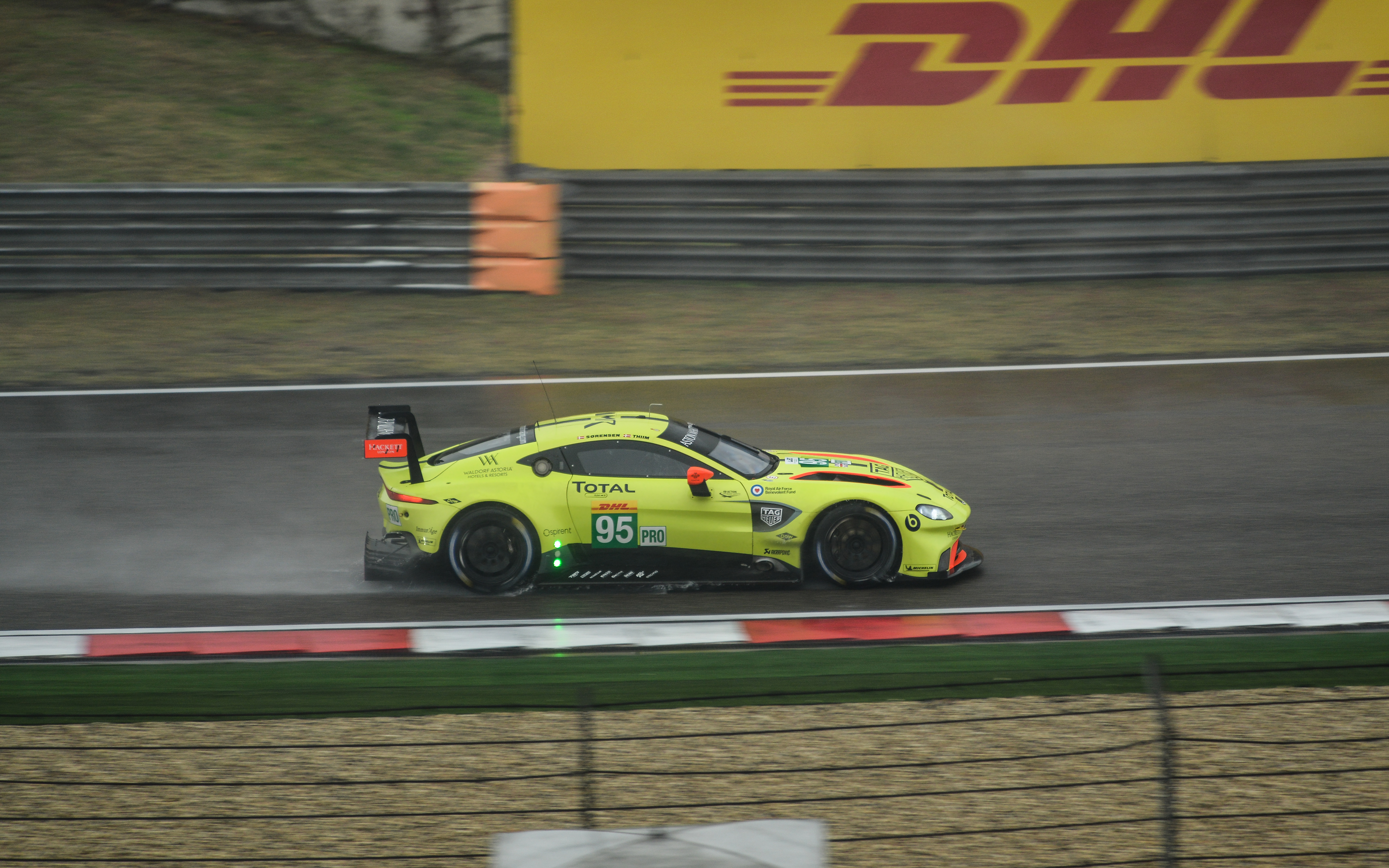 2018 6 Hours of Shanghai.